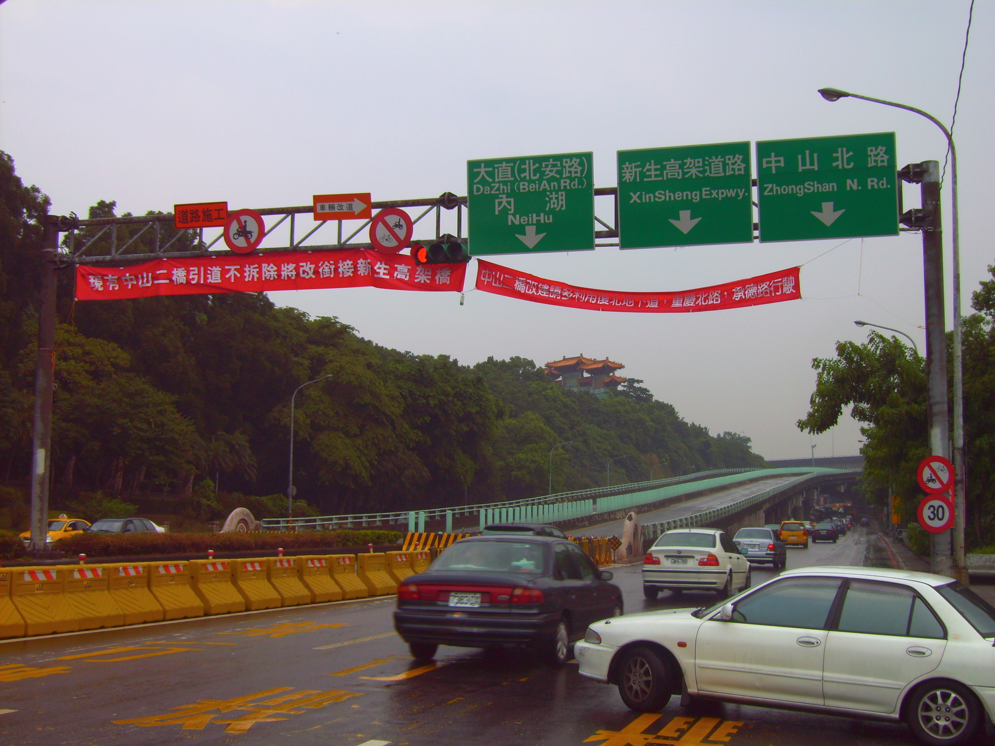 Wikimania 2007 Preparation Day: Chungshan North Road rained afternoon.中文（台灣）: 2007年維基媒體國際大會最終準備日：中山北路可以看出雨後的痕跡。